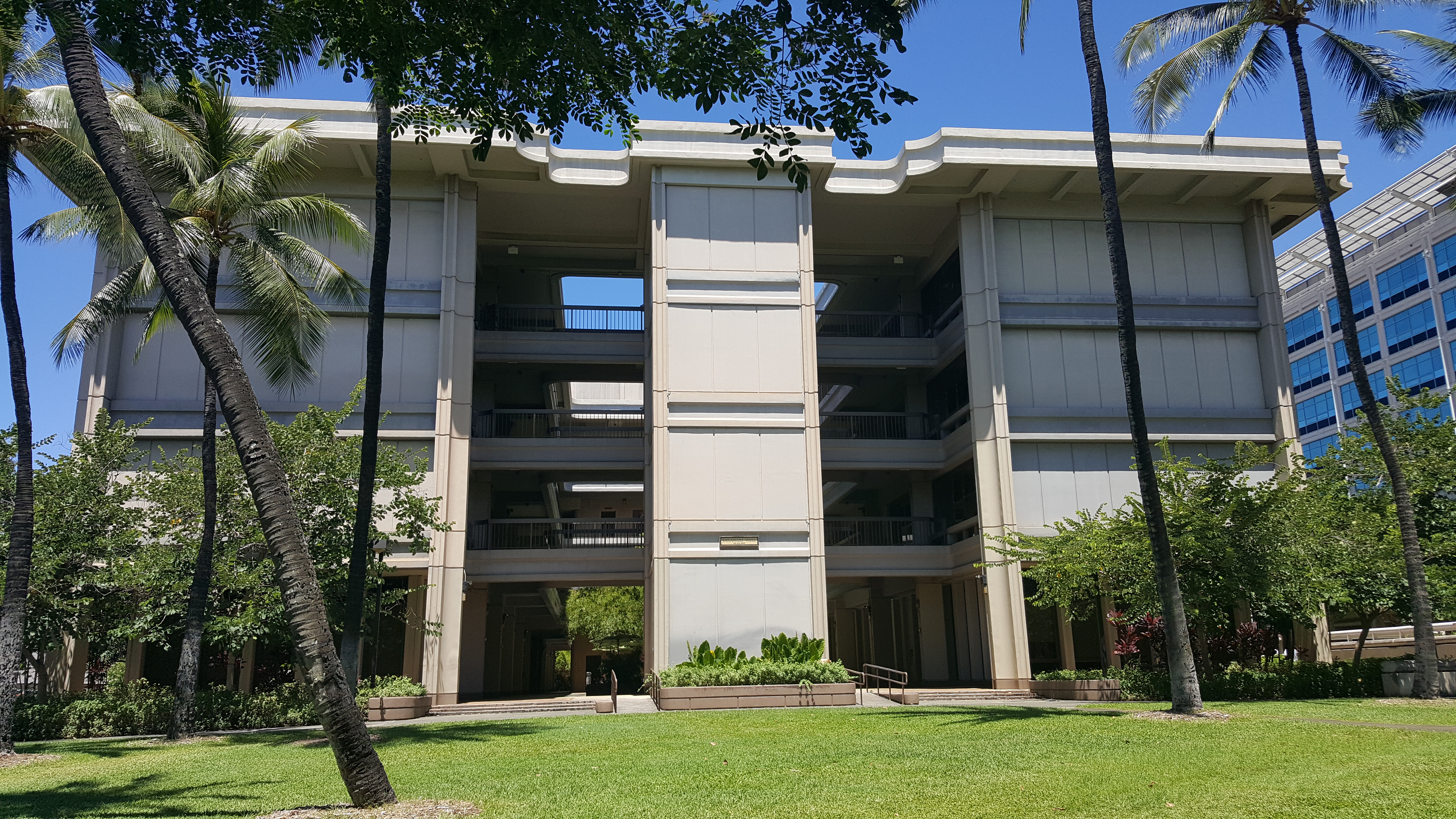 Sakamaki Hall facing Dole Street (Honolulu, HI)